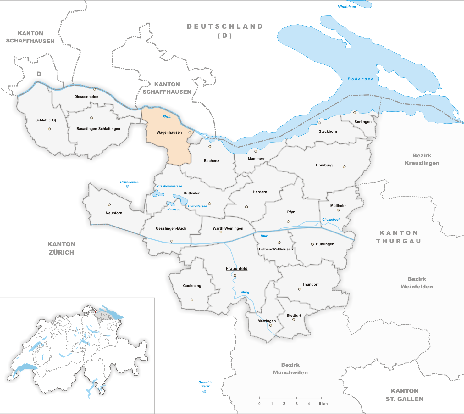 Municipality Wagenhausen